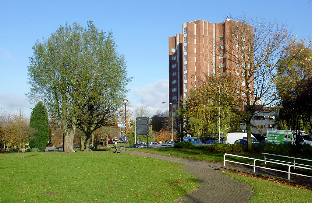 Park, and former Carillion plc head office (they moved to the former Staffordshire Building Society head office in March 2015), by Ring Road St Andrew's, Wolverhampton